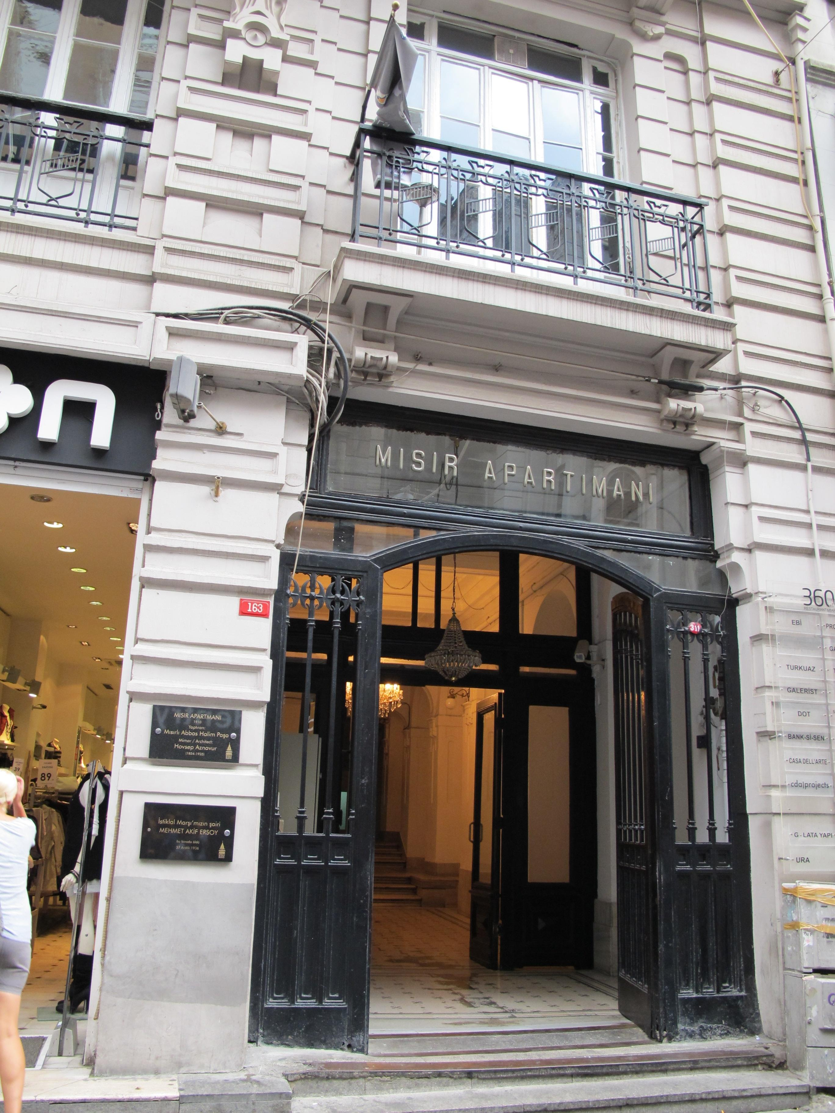 The entrance of Mısır Apartmanı, located in İstiklal Caddesi, İstanbul.